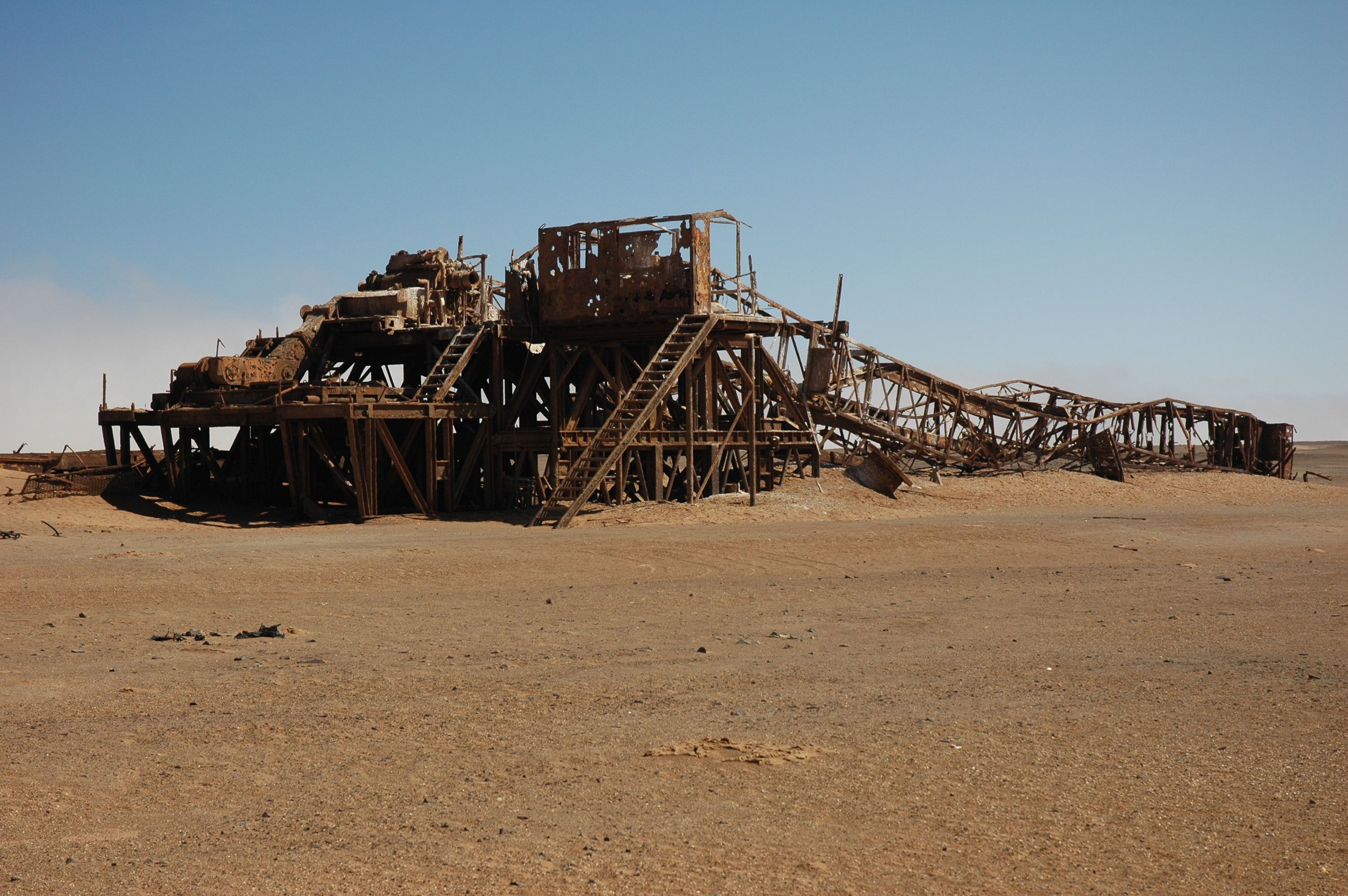 An abandoned Oil drilling rig built in the 1960ies, left in the 1970ies, located in the Skeleton Coast (information source, GPS data provided in source is inaccurate, for correct data see below)